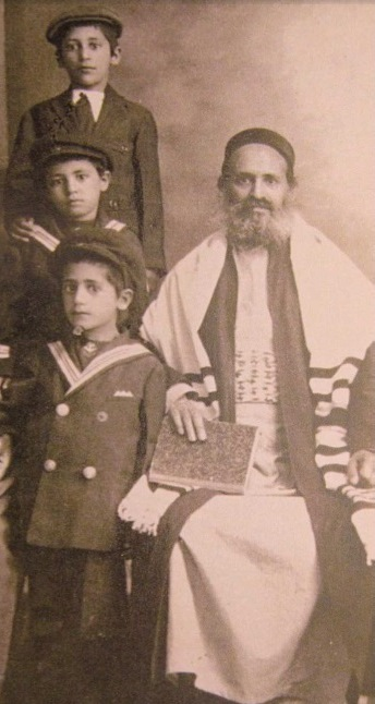 Rabbi Avraham Al-Naddaf with three of his sons, Jerusalem, ca. 1920 Other information This image is now in the public domain because its term of copyright has expired in Israel. According to Israel's copyright statute from 2007 (translation), a work is released to the public domain on 1 January of the 71st year after the author's death (paragraph 38 of the 2007 statute) with the following exceptions: ##A photograph taken on 24 May 2008 or earlier — the old British Mandate act applies, i.e. on 1 January of the 51st year after the creation of the photograph (paragraph 78(i) of the 2007 statute, and paragraph 21 of the old British Mandate act).